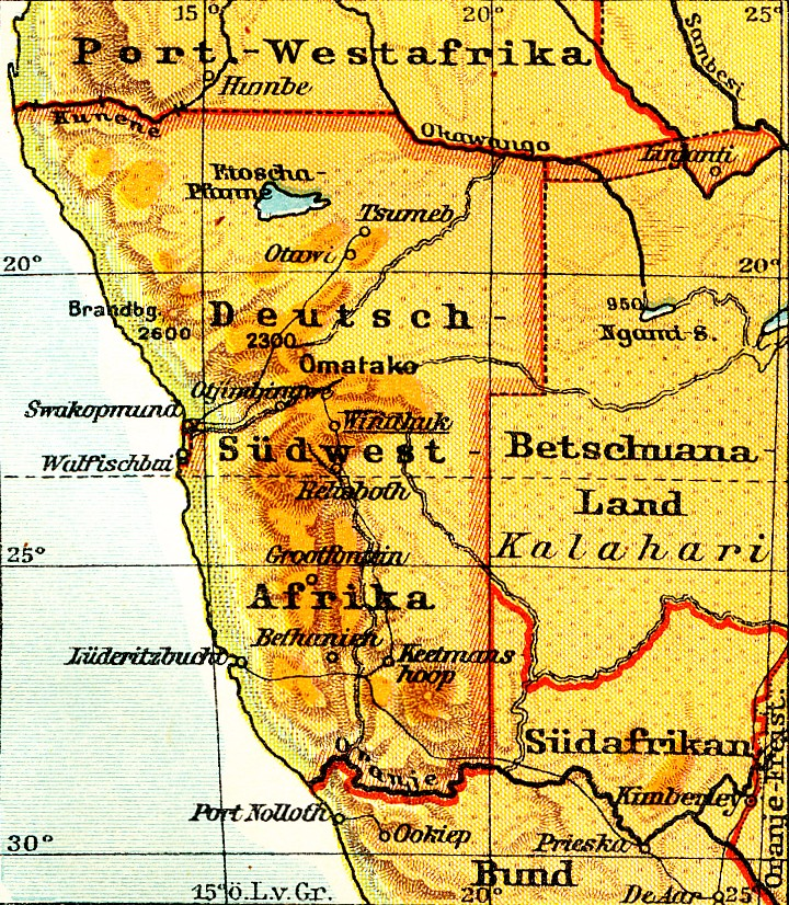 This is a part of an old atlas. It does not necessarily represent the current situation.